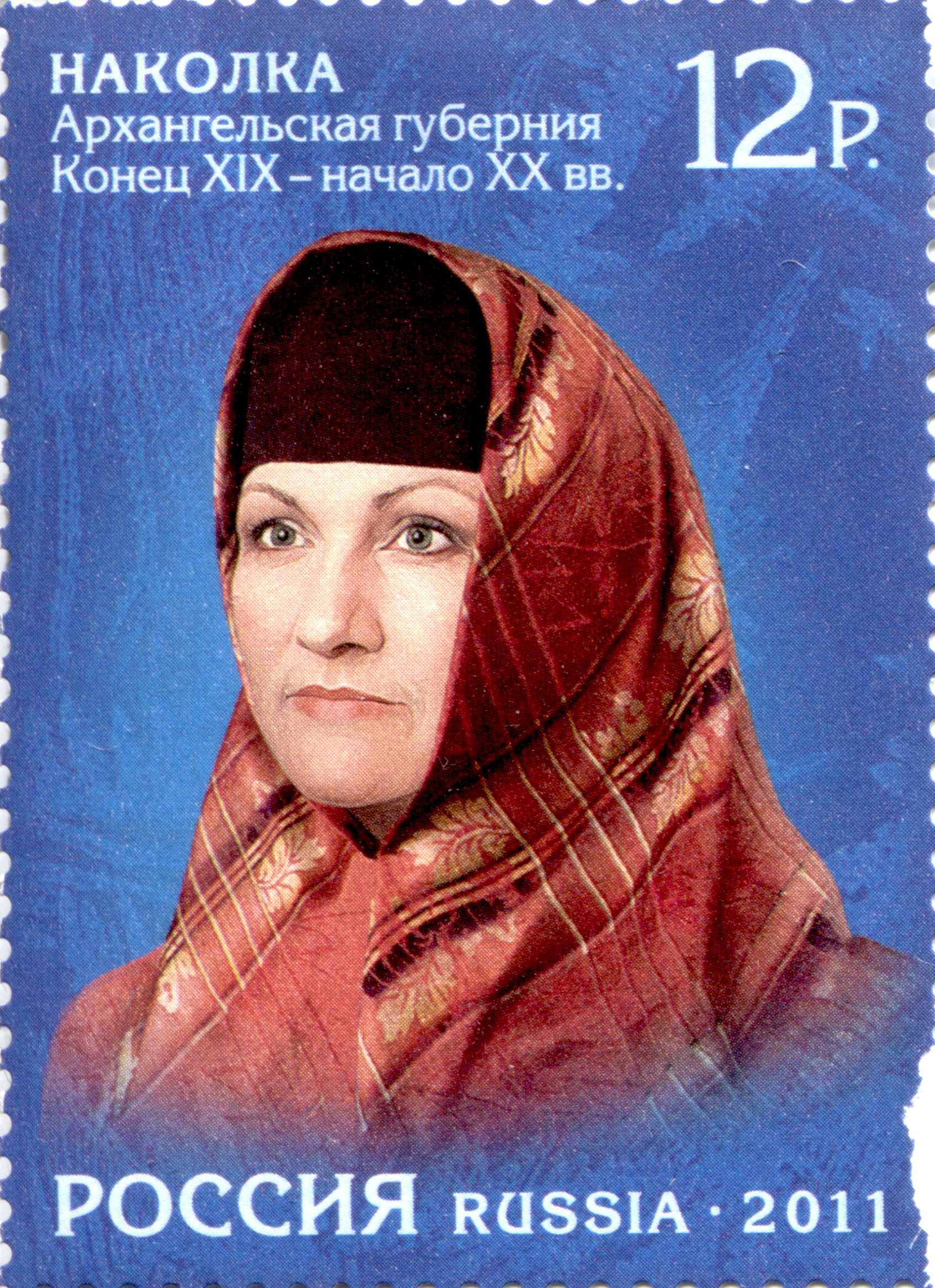 Наколка. Arkhangelsk Governorate, late 19th early 20th century. The stamp of Russia, 12 Rubles, 2011, PTC Marka Catalogue 1519-1522.